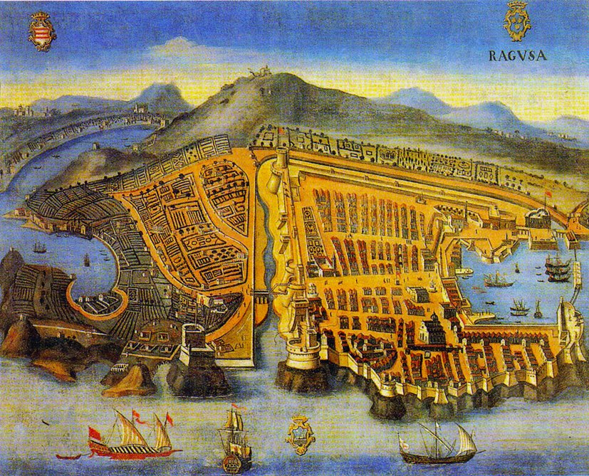 Painting of Ragusa from 1667, kept today in Dubrovnik archives; arms in upper corner.